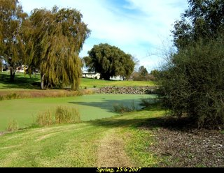 The "never-fail" spring at the Penshurst Gardens.